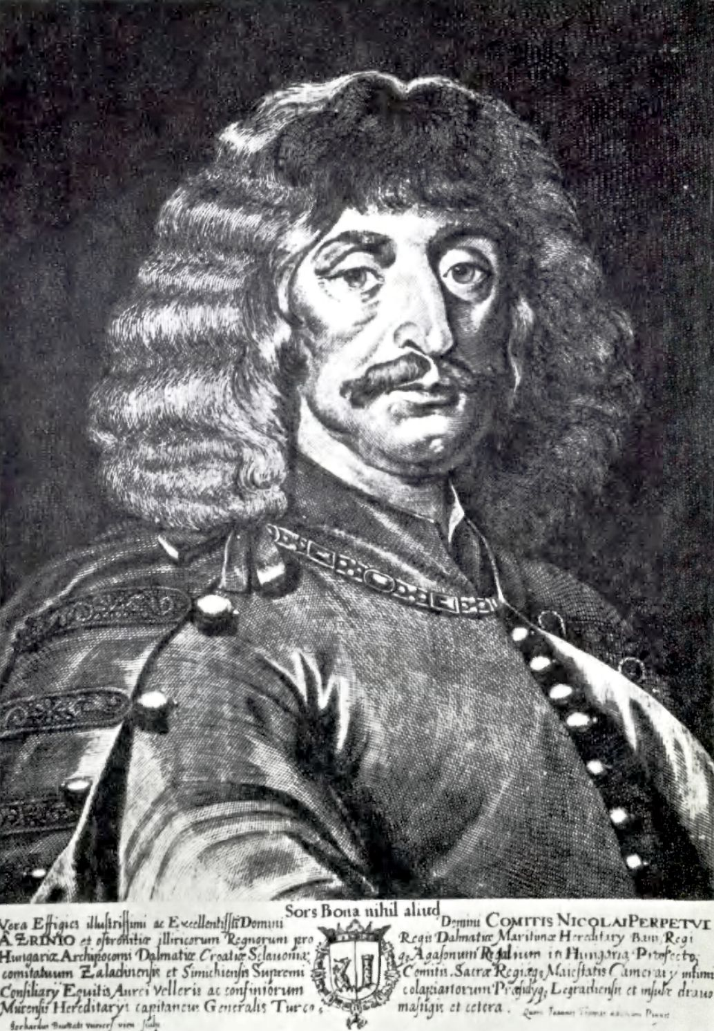 Based on painting by Jan Thomas